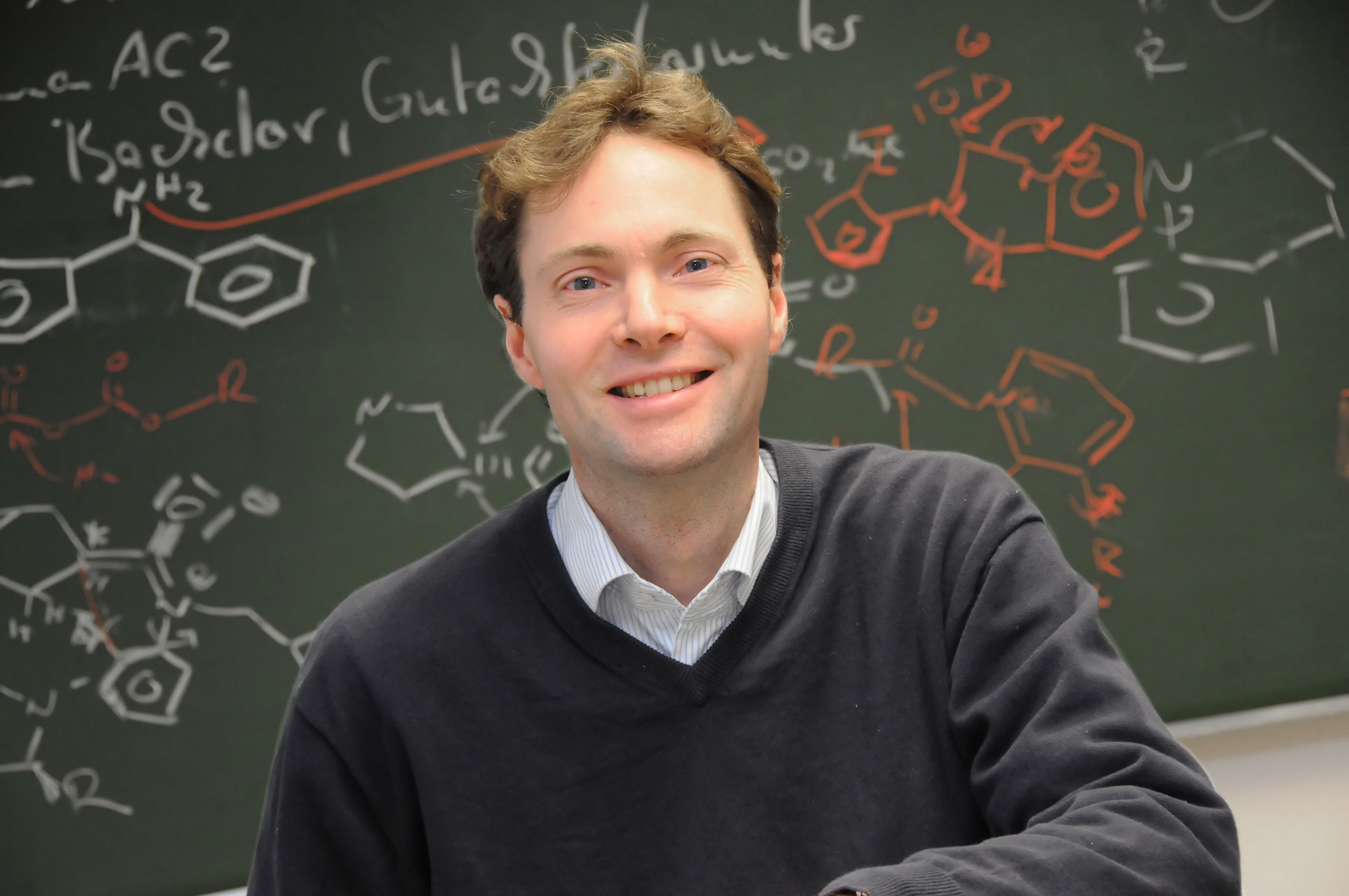 Wolfgang_Maison